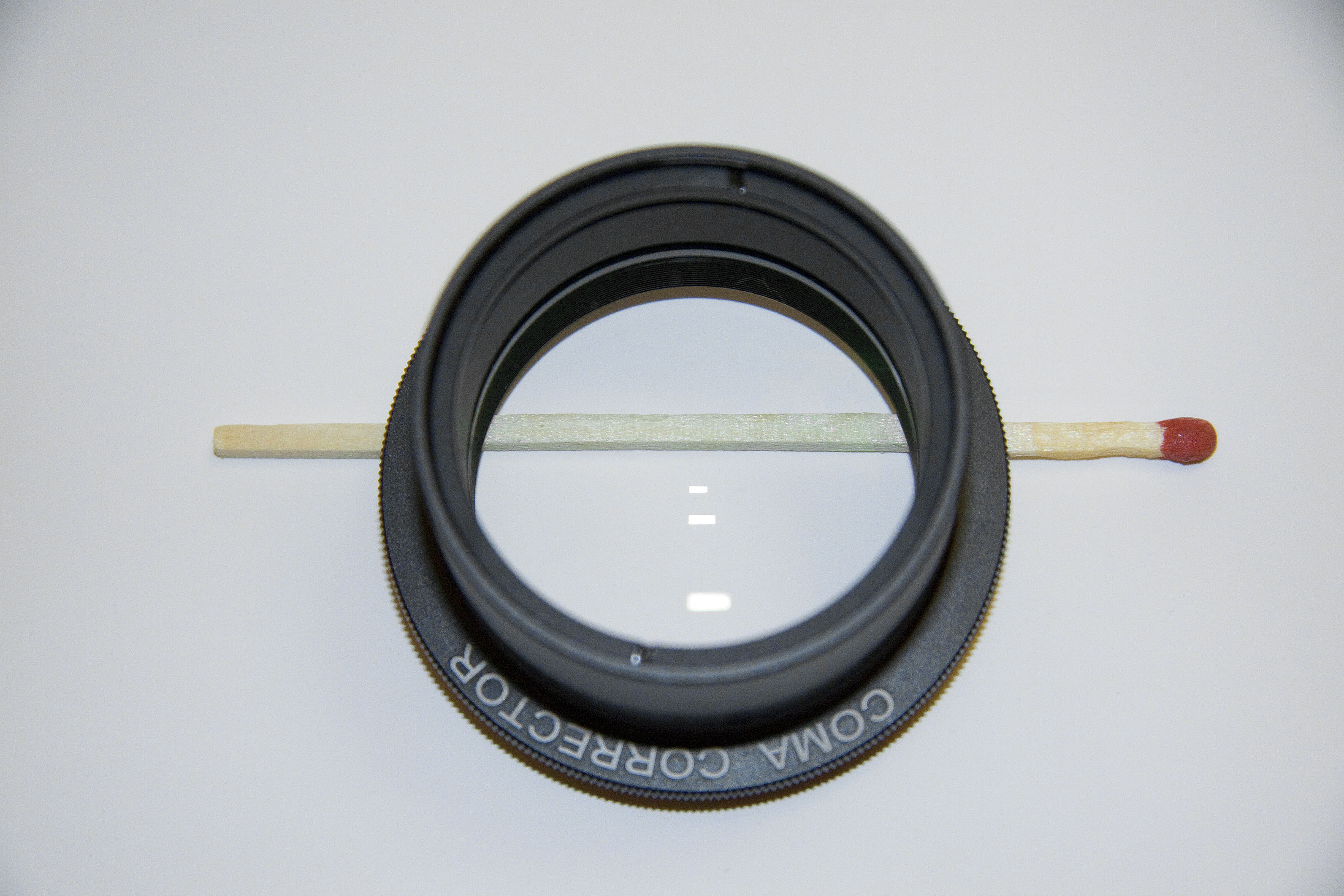 Coma-Corrector for amateur astronomy